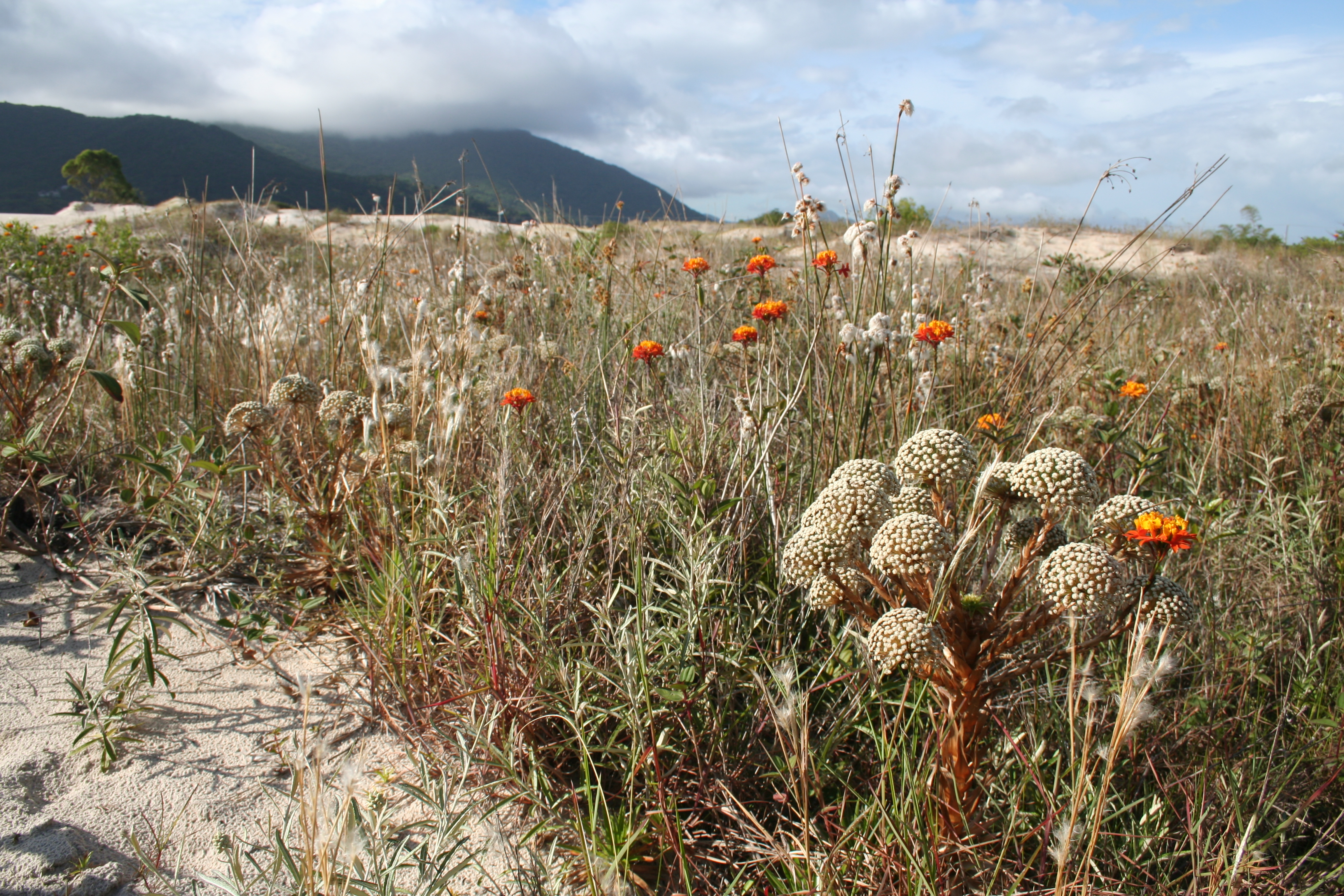 Vegetation of the protected area named as Parque Natural Municipal das Dunas da Lagoa da Conceição, in Florianópolis, southern Brazil. The plant in evidence on the right side are Actinocephalus polyanthus, an Eriocaulaceae.